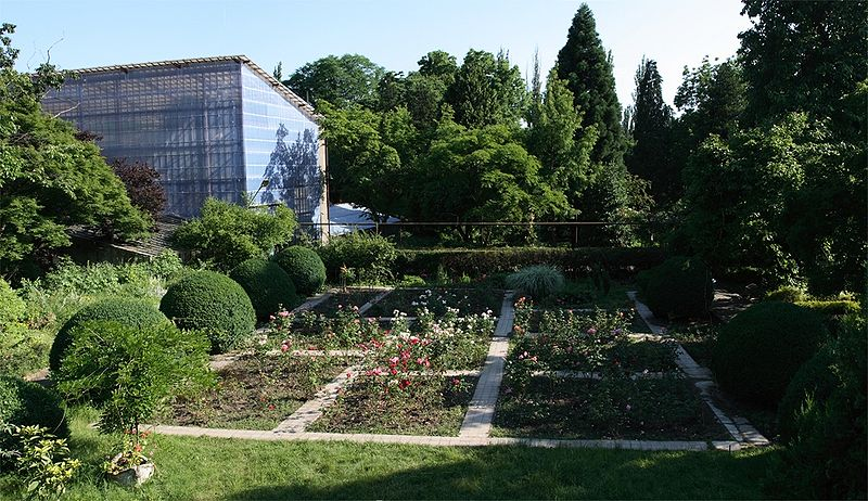 Uzhgorod National University Botanical Gardens